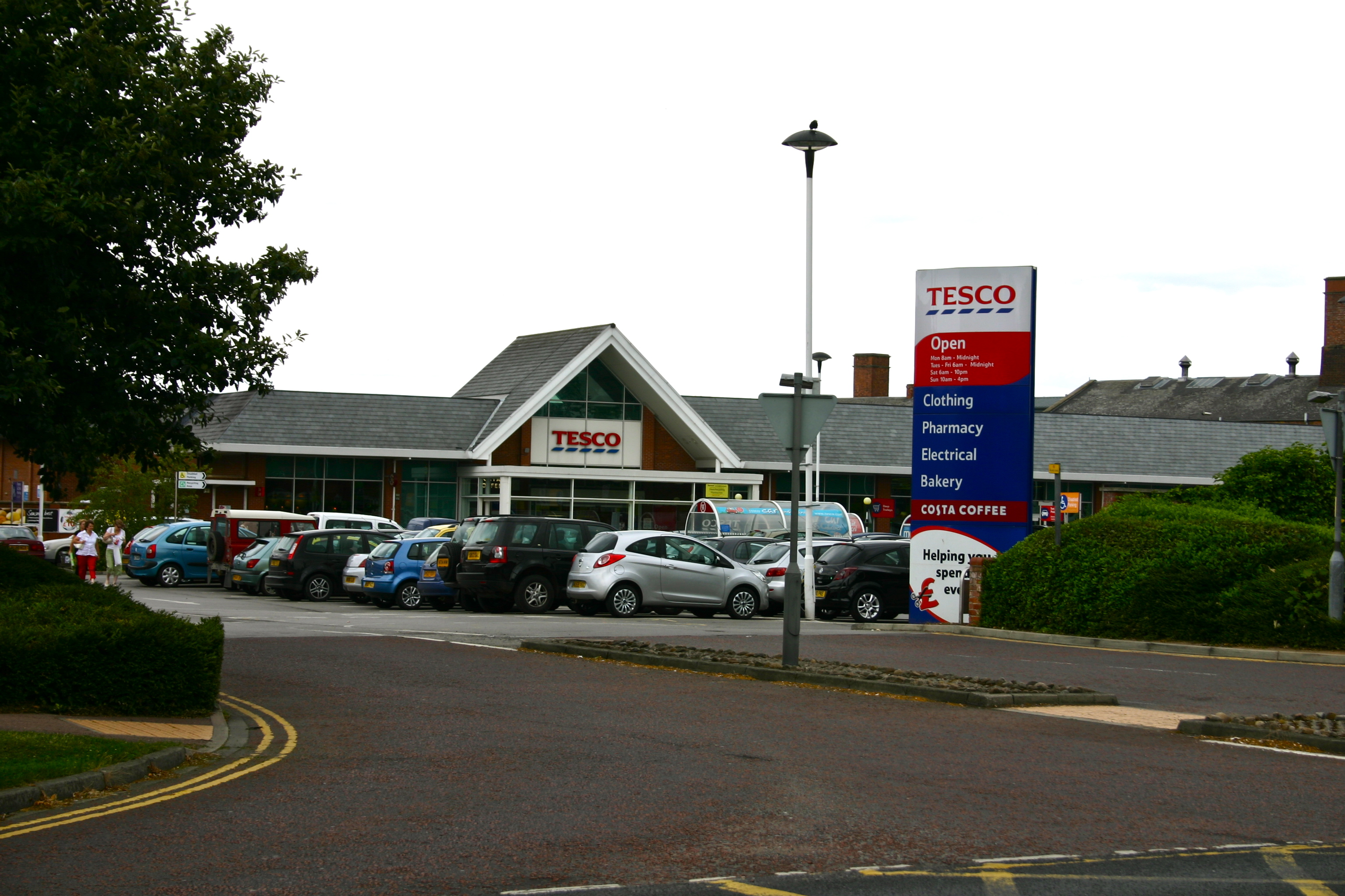 A Tesco store in Northallerton. This is the largest supermarket in the town. To add to the normal supermarket ranges, this store also has a pharmacy, a Costa Coffee and a clothing and electrical section.